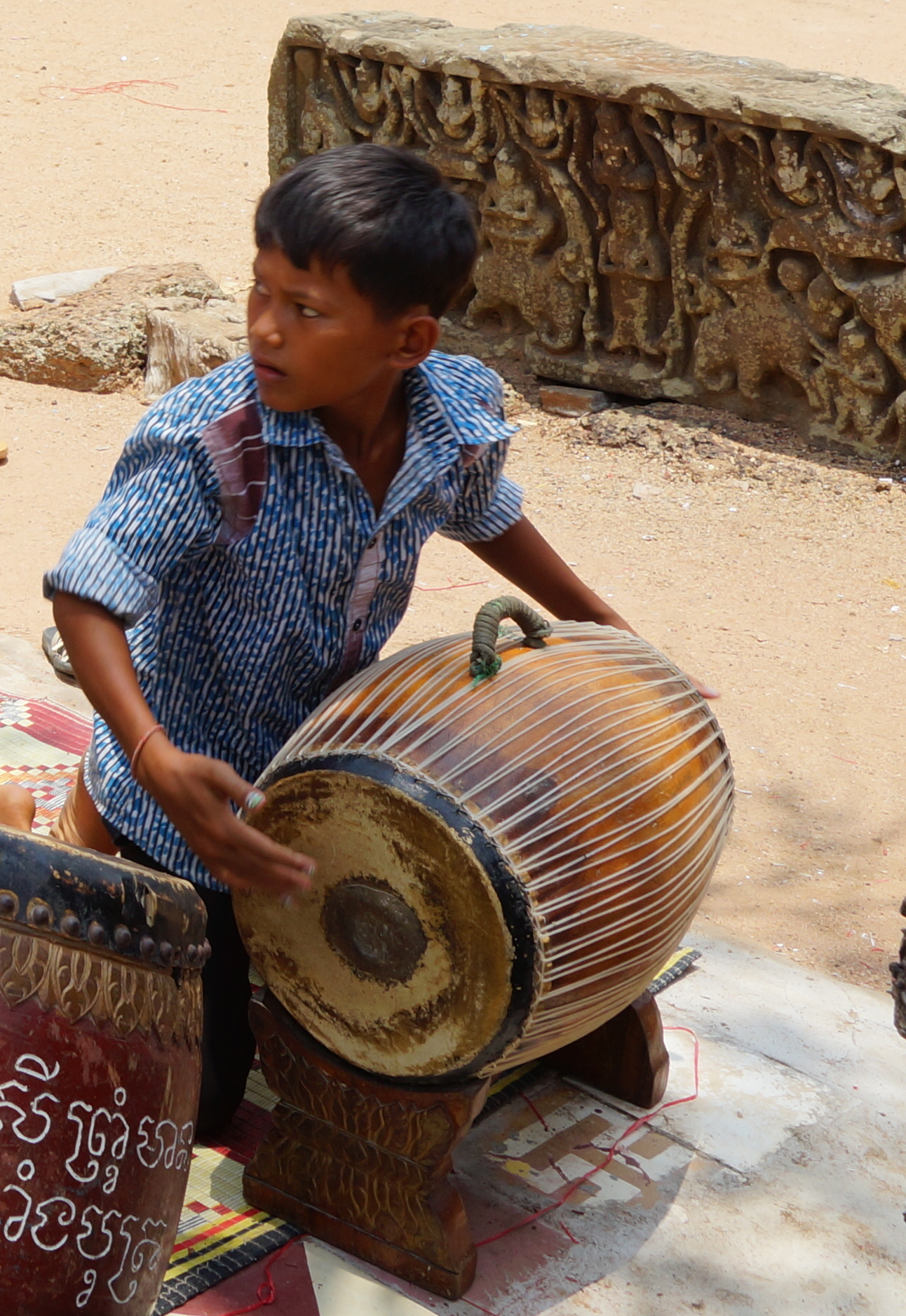 Cambodian boy with a skor samphor (សម្ភោរ) or just samphor. Skor means drum. Samphor is the type of drum.